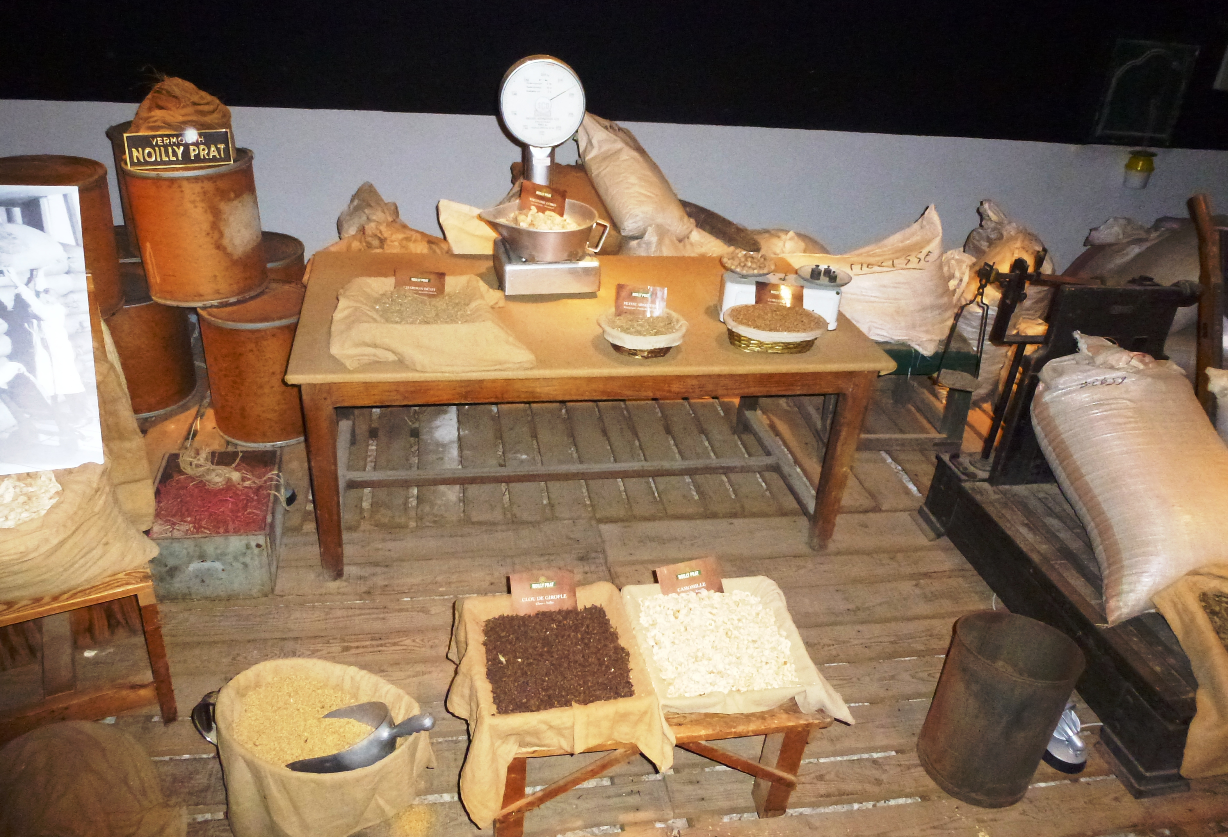 Noilly-Prat herbes workshop for vermouth processing